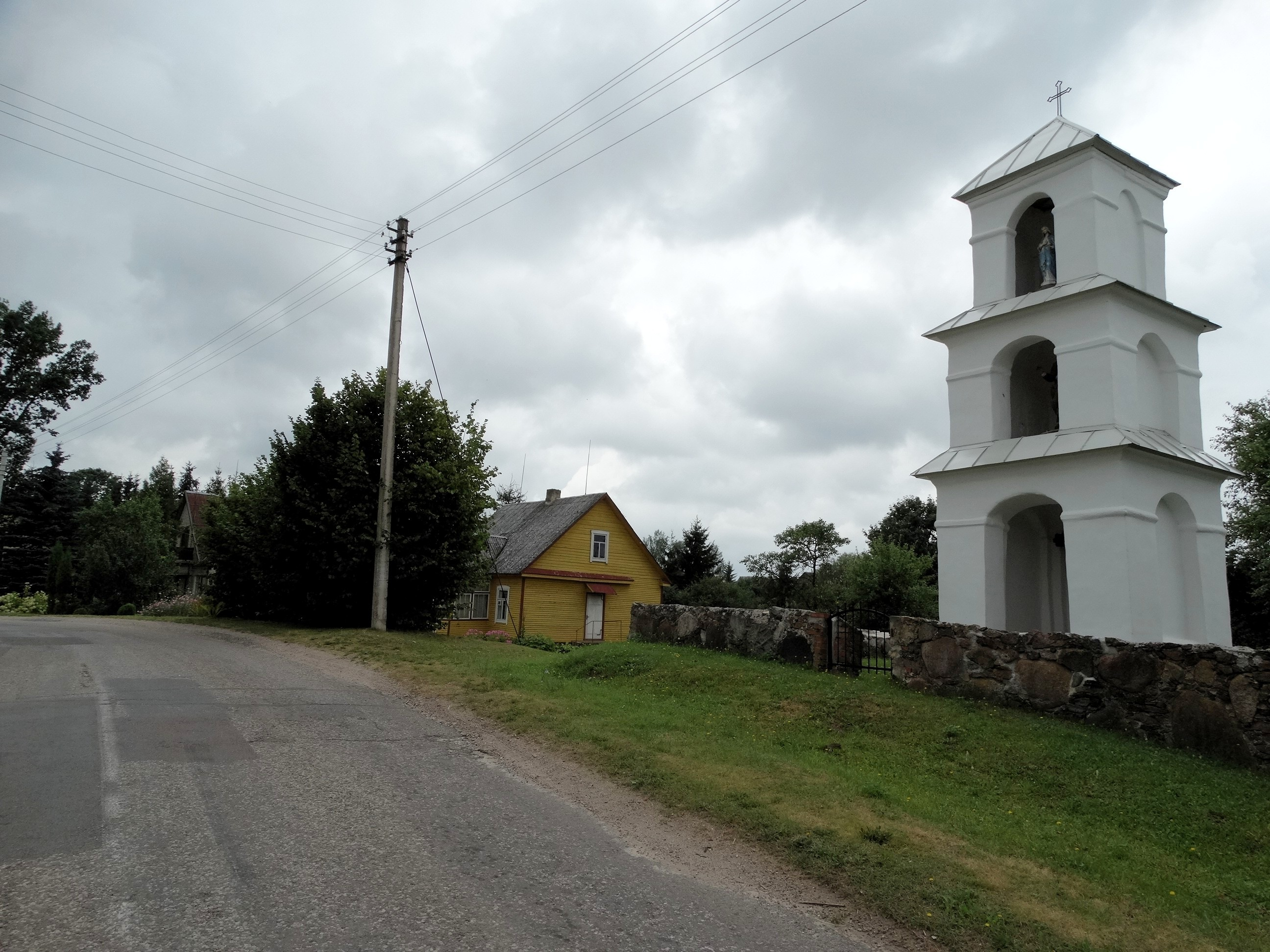 Pakalniai chapel, Utena district, Lithuania